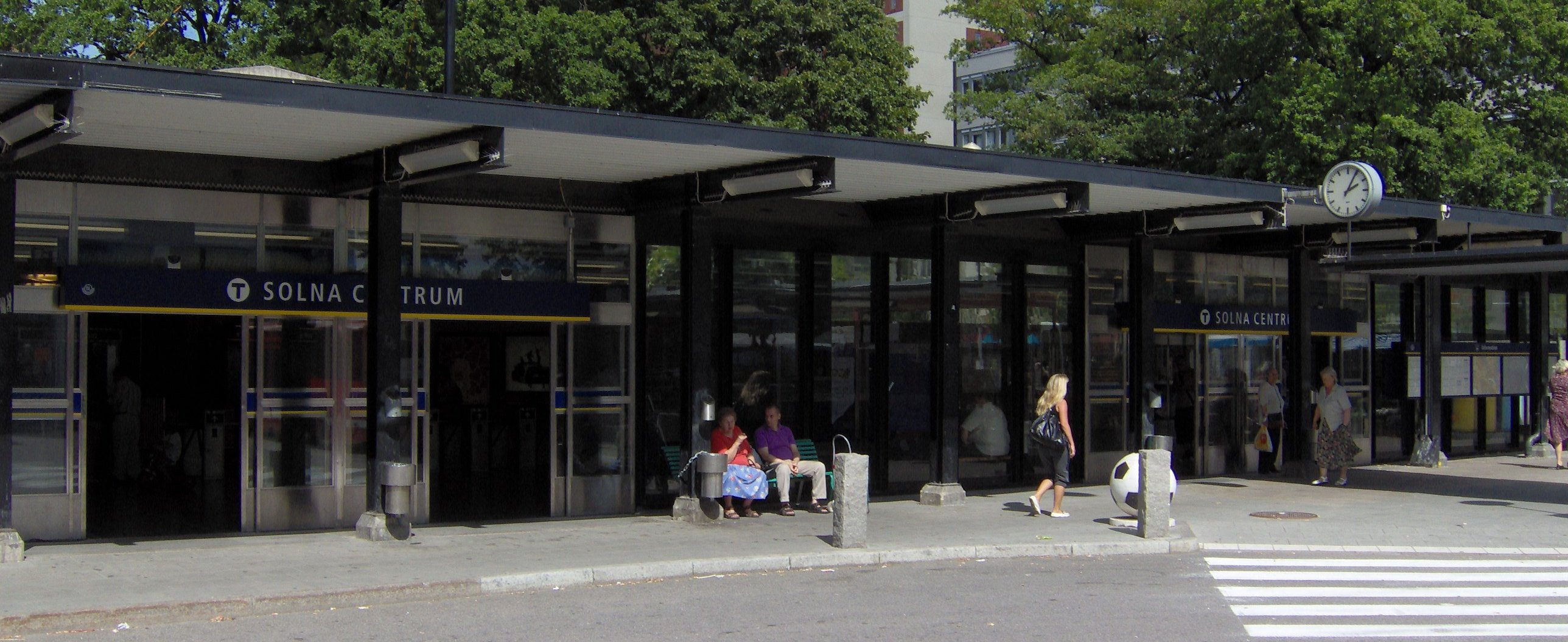 Entrance to the Stockholm metro station Solna centrum.